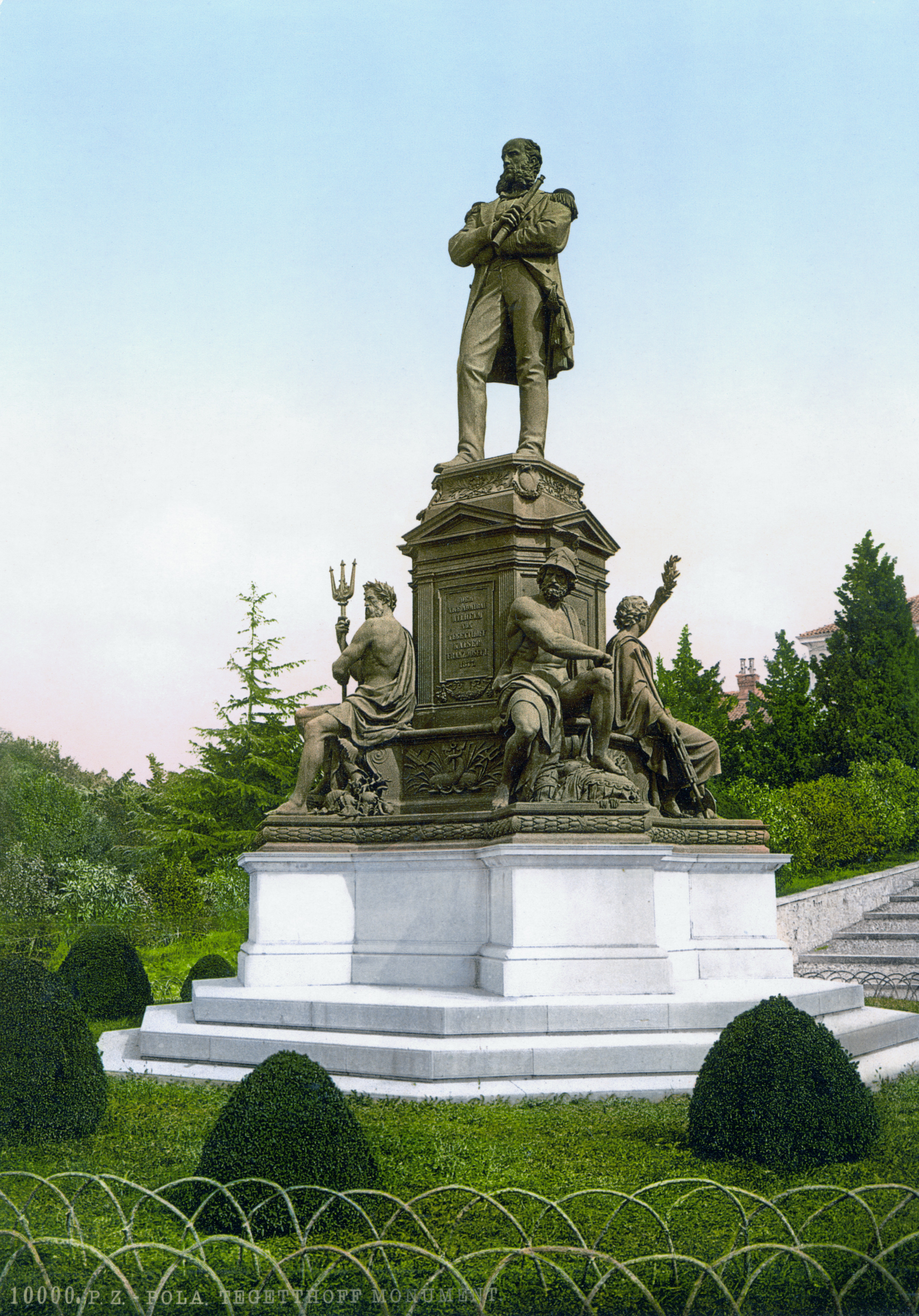 Pola Tegetthoff Monument